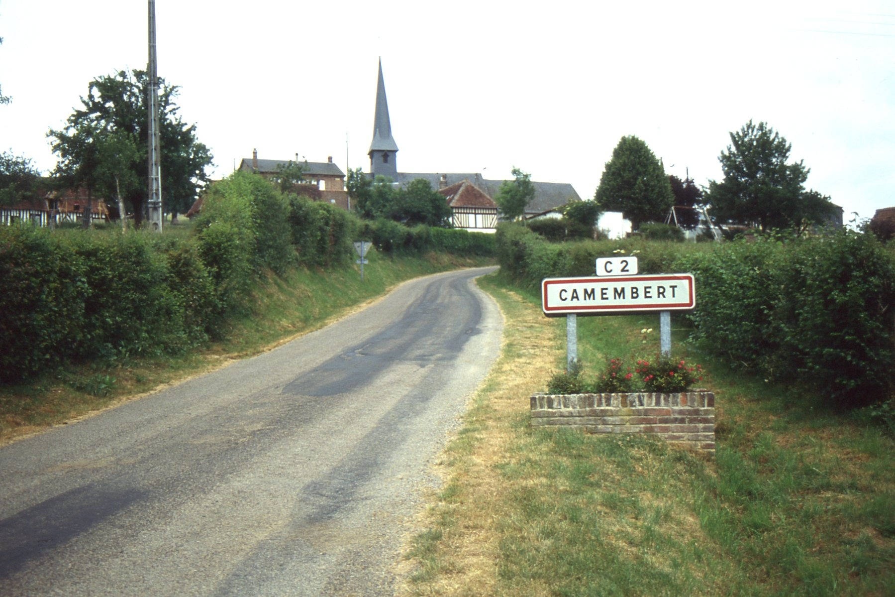 The town entrance of Camembert, in Pays d'Auge (Normandy), where the eponymous cheese was invented.